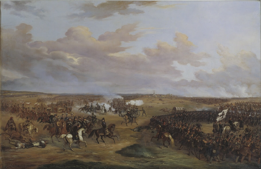 Battle of Dennewitz, with Prince Charles (XIV) John in the middle. Painting by Alexander Wetterling.